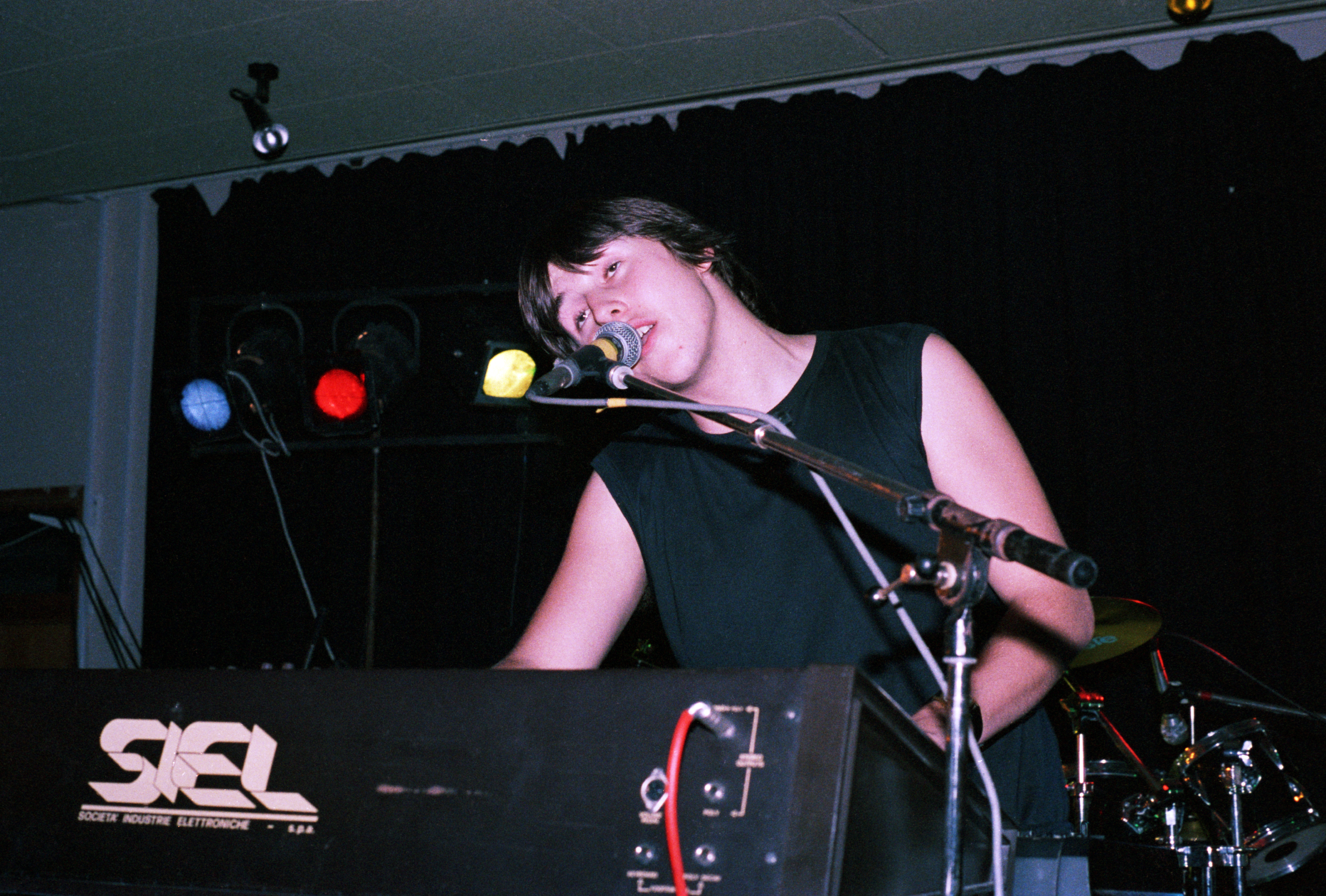 Martyn Geraint, Ffenestri. Roc ystwyth music festival , Neuadd yr Undeb, Aberystwyth University, August 1986. Image by Medywn Jones